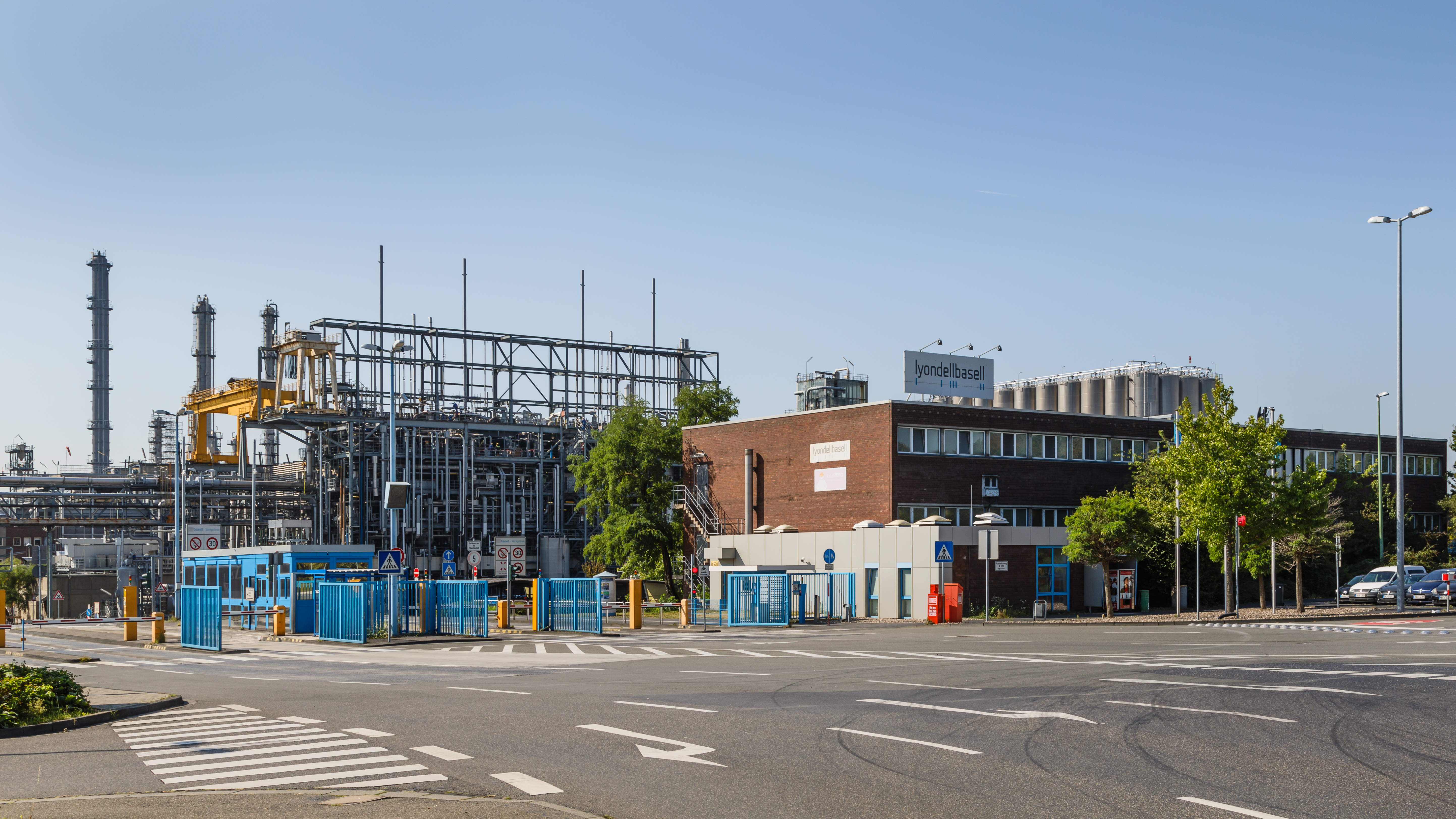 Wesseling, Köln, Germany: Main gate to the chemical plants of LyondellBasell, Wesseling